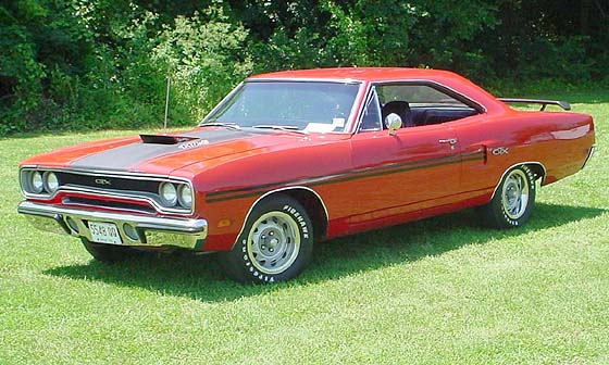 1970 Red Plymouth GTX with Air-Grabber hood scoop and 440 Six-Pack hood markings. Almost too small to be seen in the picture (unless you look very closely) is the shark-mouth emblem on the side of the hood scoop, somewhat reminiscent of the WW2 P-51 Mustang fighter plane.